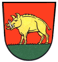 Coat of arms of Ebersbach an der Fils Von der Stadtverwaltung Ebersbach Hauptamt Personalmanagement, Öffentlichkeitsarbeit, EDV Marktplatz 1 73061 Ebersbach wurde das Logo per E-Mail zur Veröffentlichung in der Wikipedia freigegeben